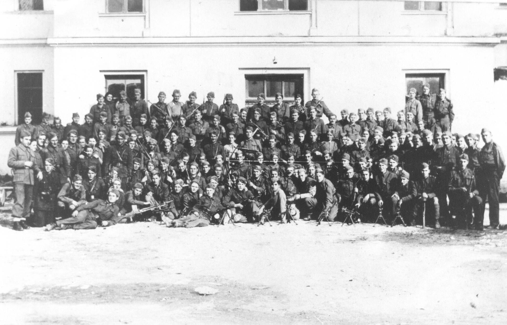 Prateći bataljon Vrhovnog štaba u Valjevu, oktobra 1944. Šipka Dušan, 21-vi u trećem redu odozgo s leva na desno (sa automatom preko grudi).